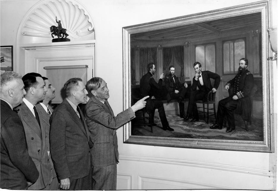 President Truman's press secretary, Charles Ross (fifth from the left), displays "The Peacemaker" by George P. A. Healy, depicting Lincoln's meeting with Generals Grant, Shermand and Admiral Porter.